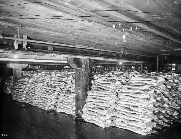 4,000 sides of bacon in cold cellar. The Wm. Davies Co. Toronto. (Toronto, Canada)